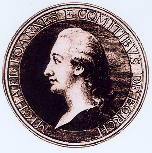 Michael von der Borch-Lubeschütz.